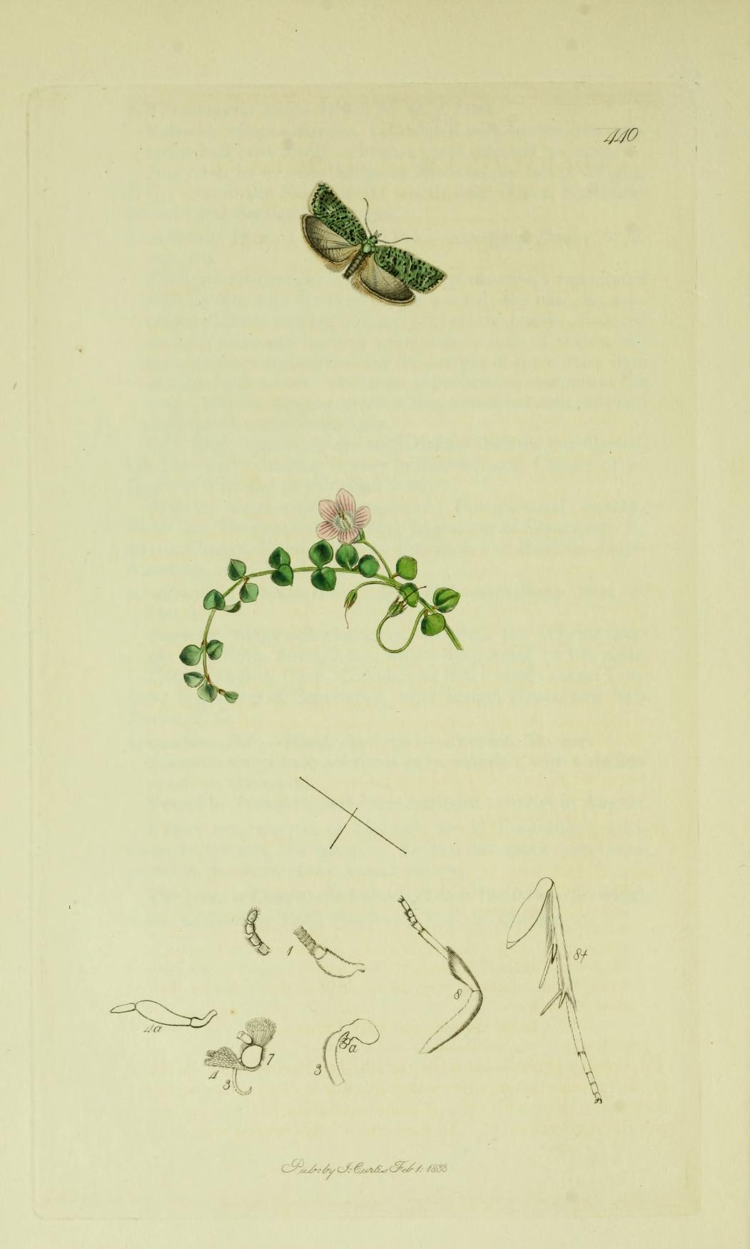 An illustration from British Entomology by John Curtis. Lepidoptera: Leptogramma irrorana Acleris (Peronea) literana (Sprinkled Rough-wing).